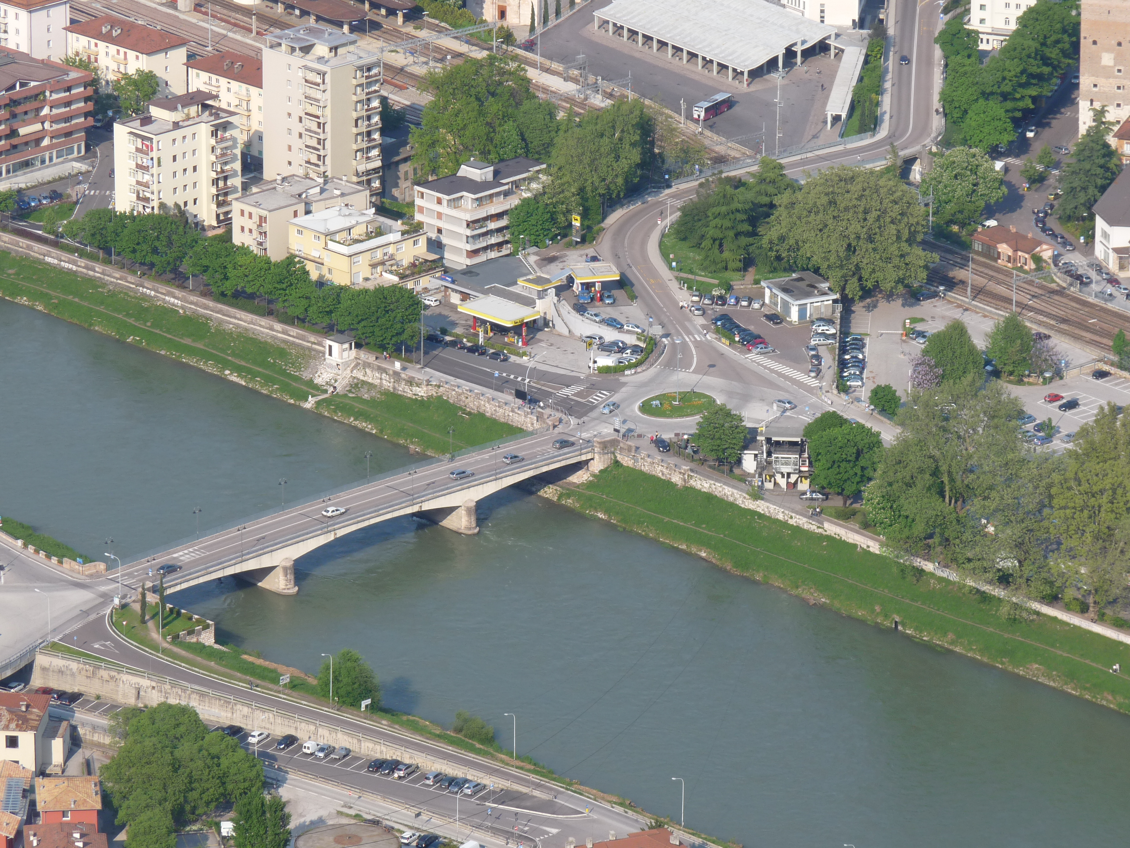 Trento (Italy): the San Lorenzo bridge over the Adige river from the cabin of the Trento-Sardagna cableway